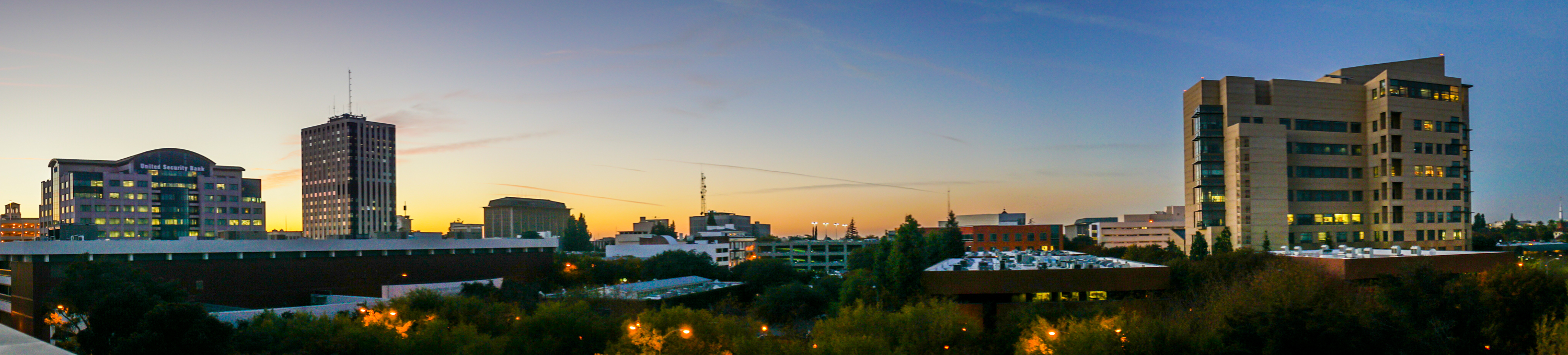 Panoramic photo of Downtown Fresno.